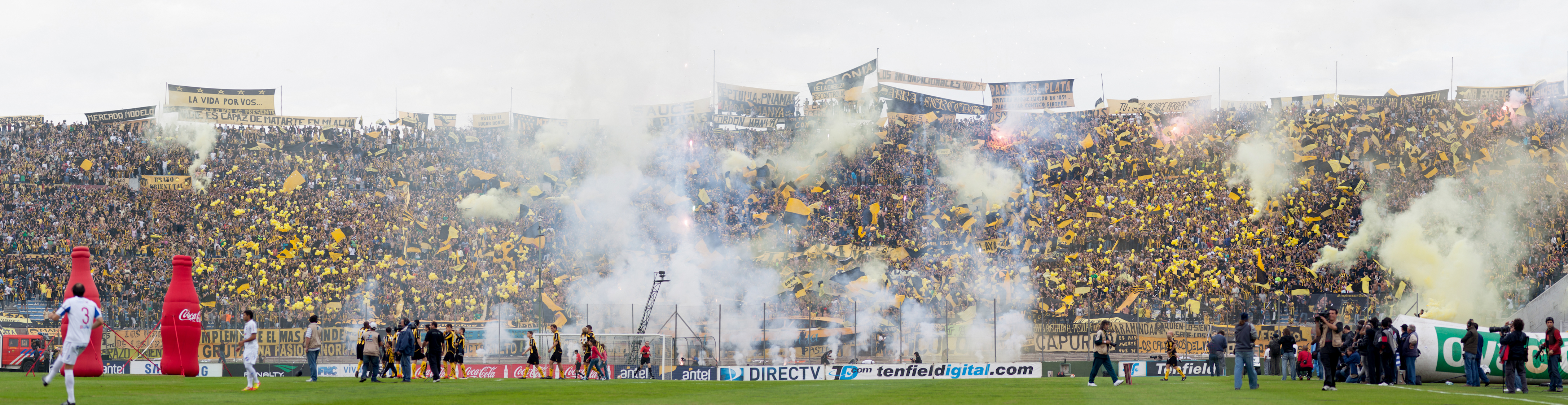 The Amsterdam stand of the Estadio Centenario in Montevideo, during a uruguayan derby, at capacity crowd with Peñarol supporters.